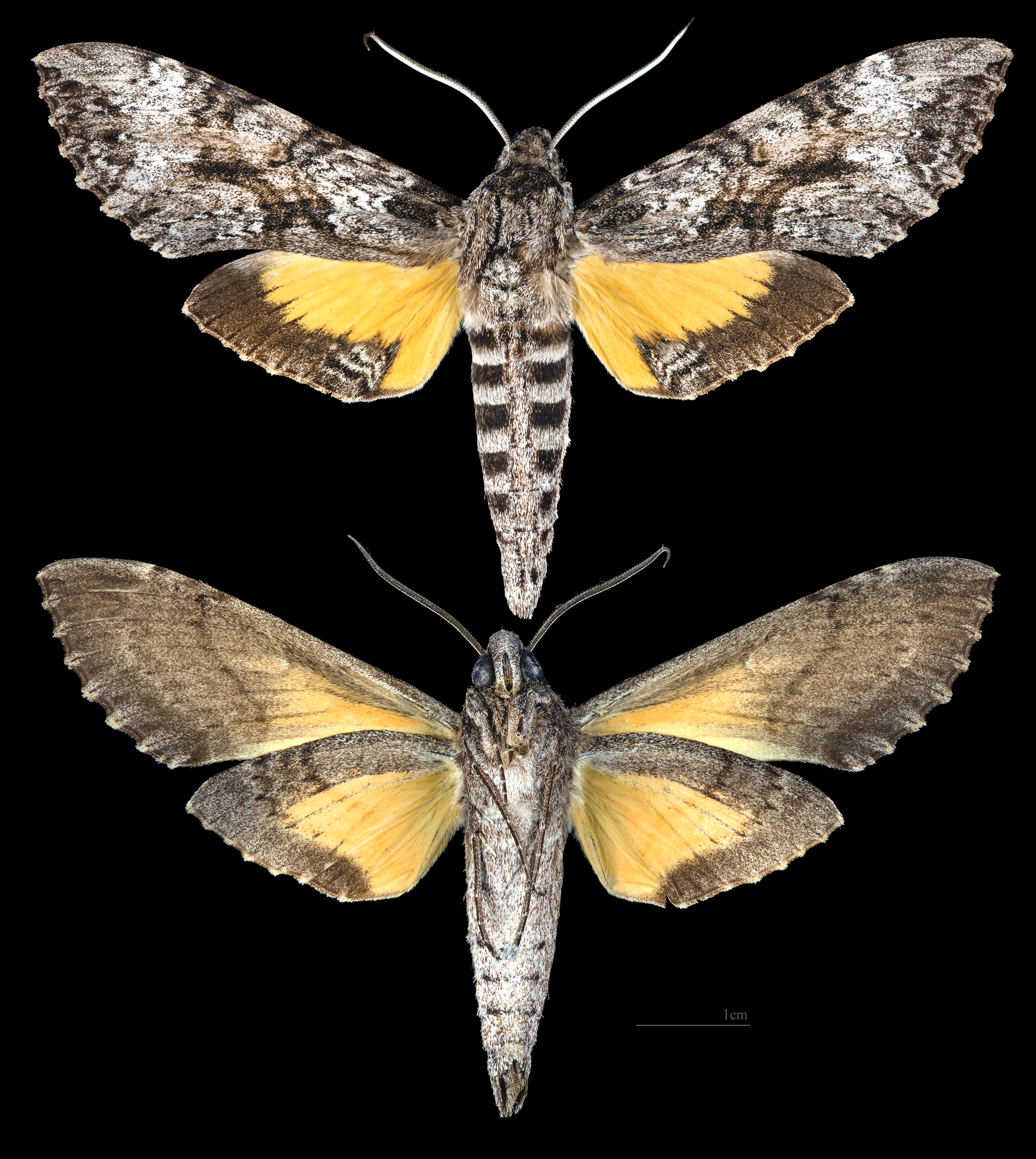 Isognathus rimosa - Two views of same specimen